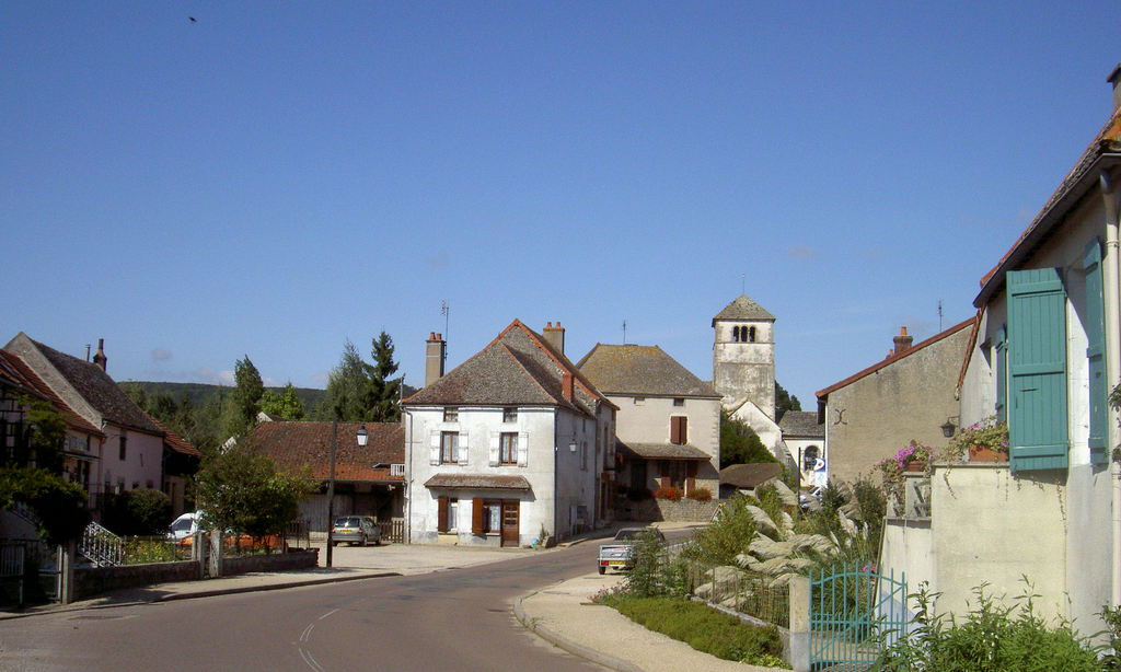 Vue du village